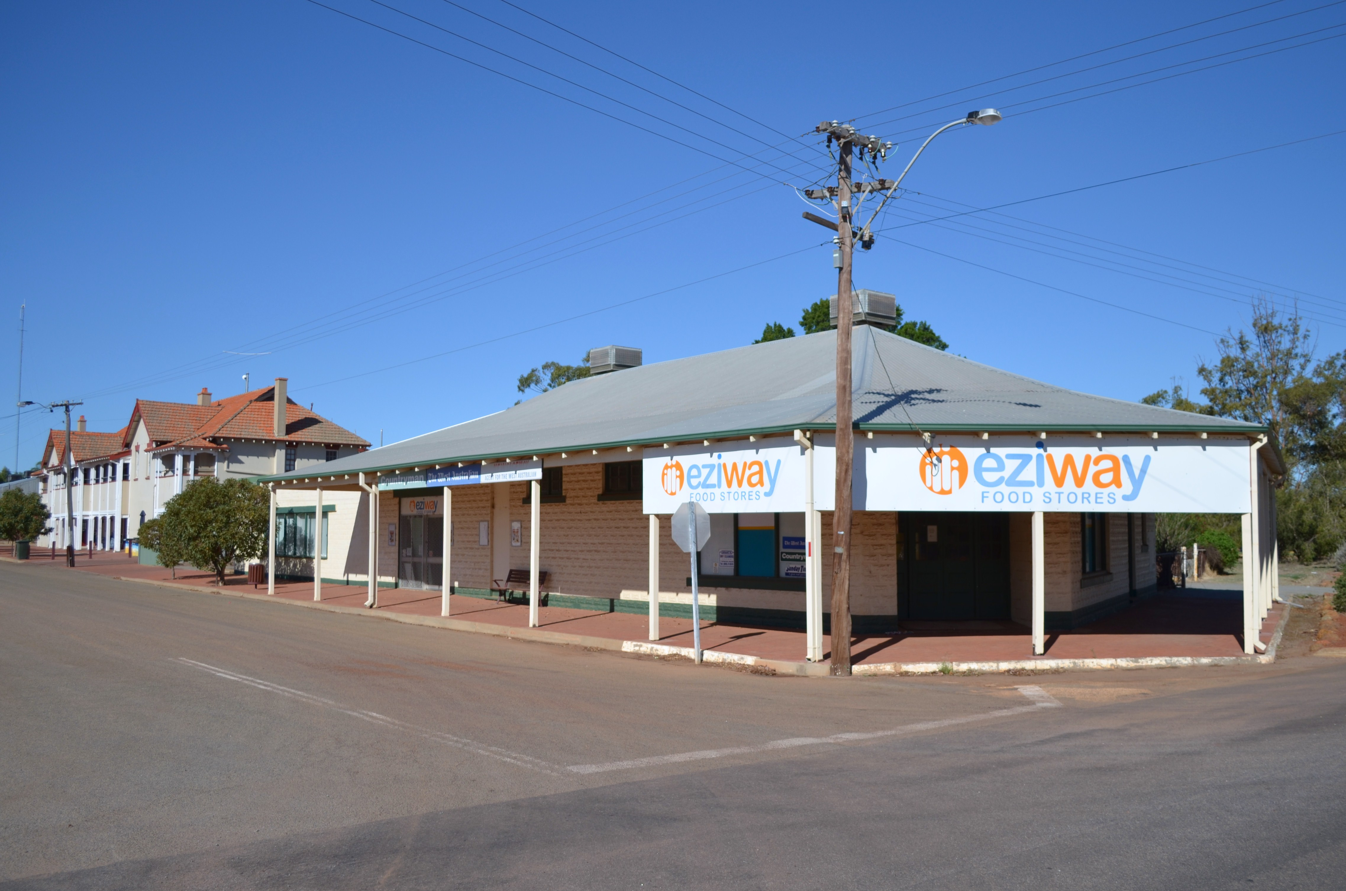 View of Main Street, Coorow, Western Australia. The Coorow Hotel is at left and the general store at right. In the foreground is the corner of Main Street (left) and The Midlands Road (right).